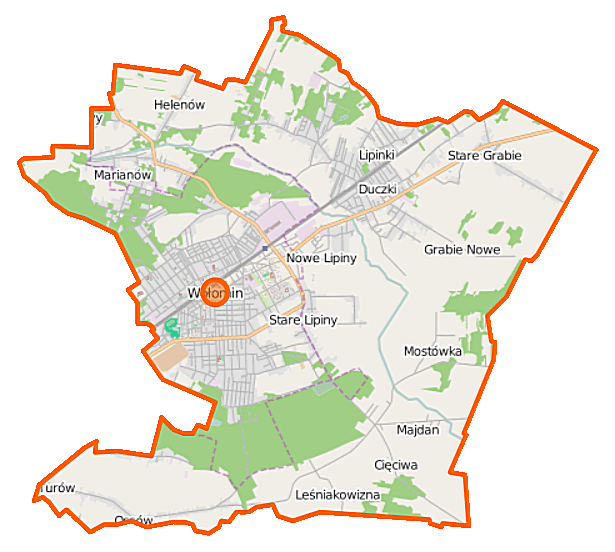 Map of Gmina Wołomin, Poland This map of Wołomin (gmina) was created from OpenStreetMap project data, collected by the community. This map may be incomplete, and may contain errors. Don't rely solely on it for navigation. Border coordinates52.395921.1830←↕→21.352352.3032